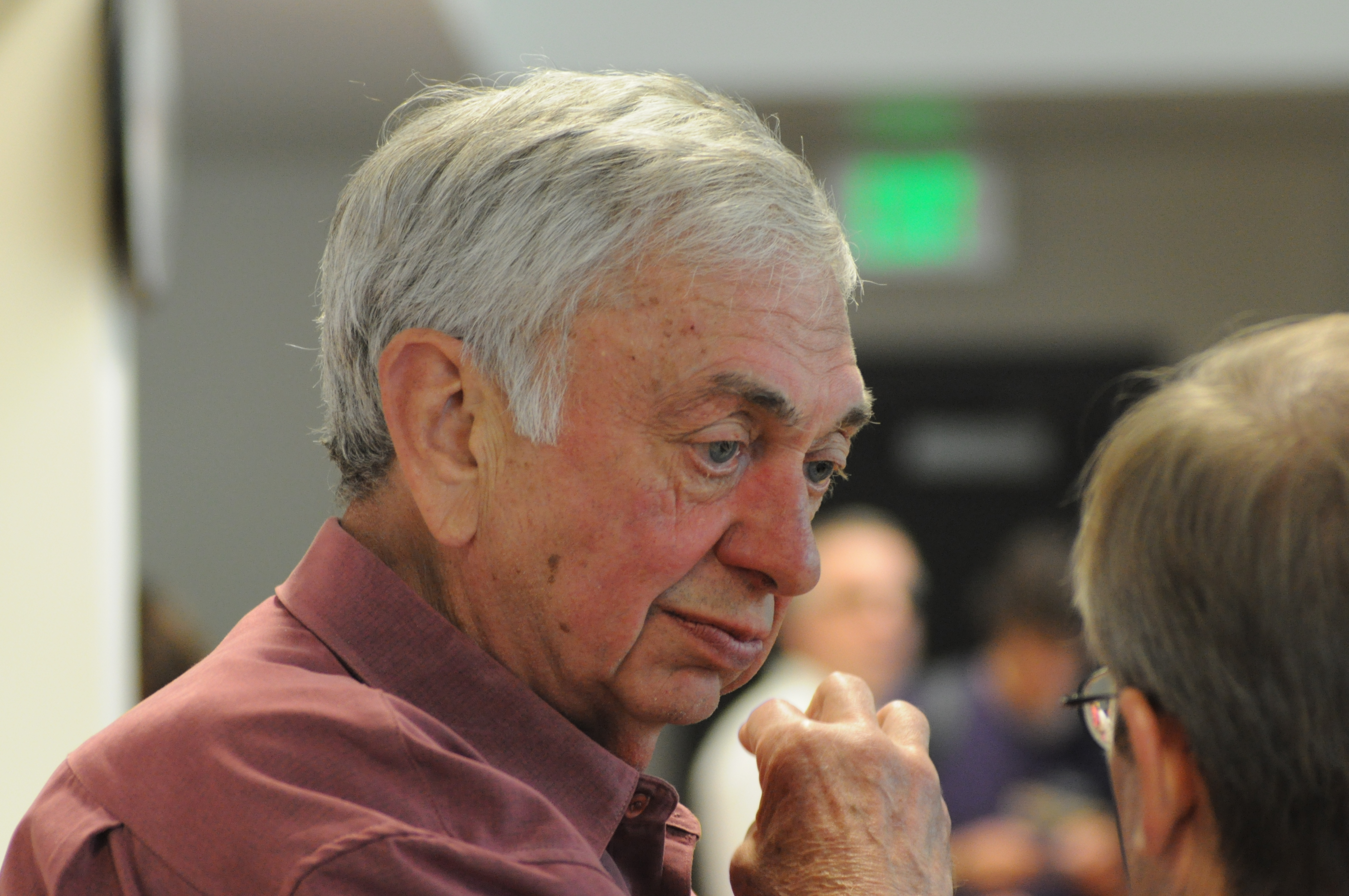 Former congressman and Washington State governor Mike Lowry attending Bob Ferguson's 4th Annual Shrimp Feed (a tradition Ferguson took over from Lowry), Northgate Community Center, Seattle, Washington.